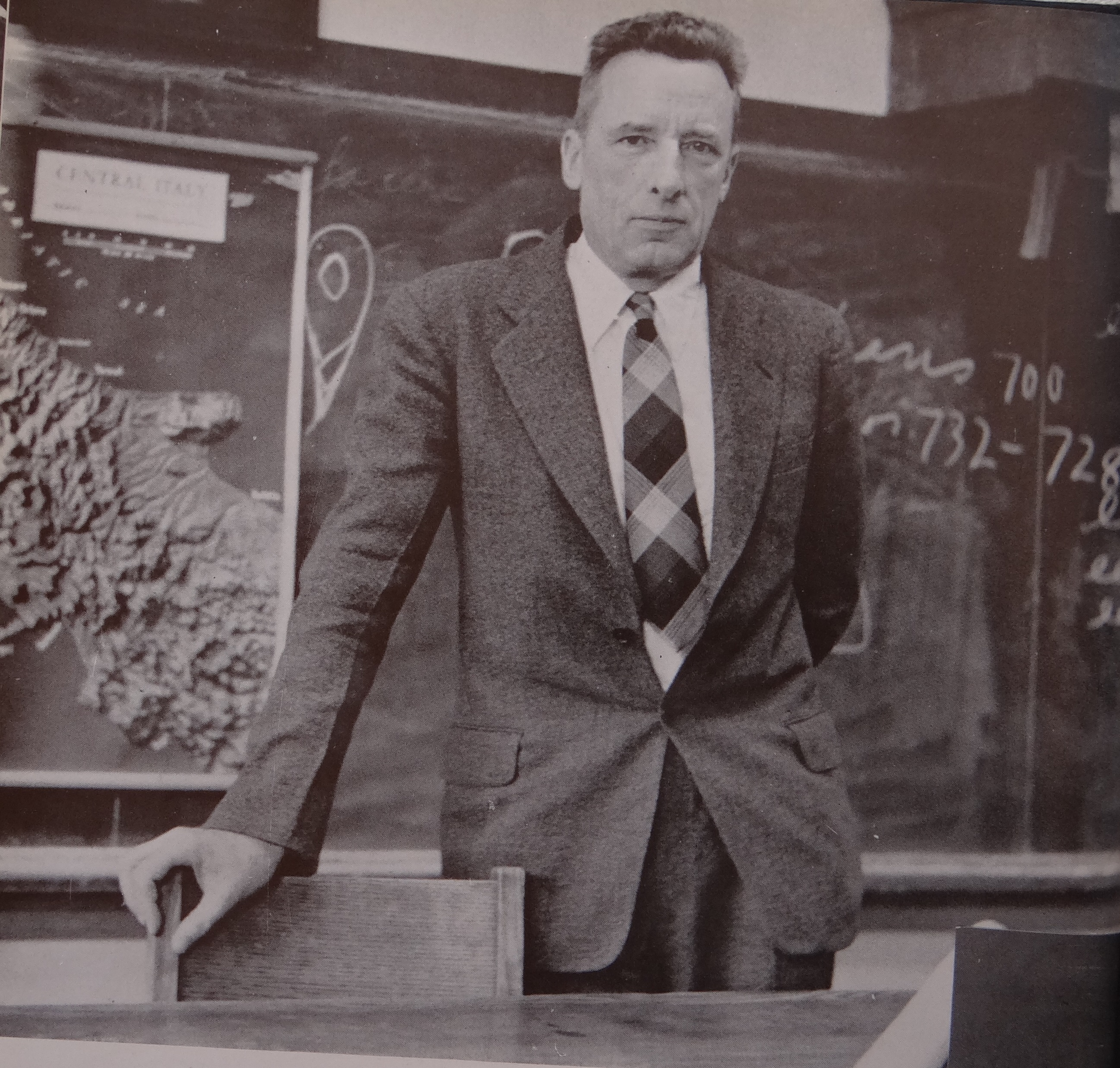 Photograph of Clark Hopkins